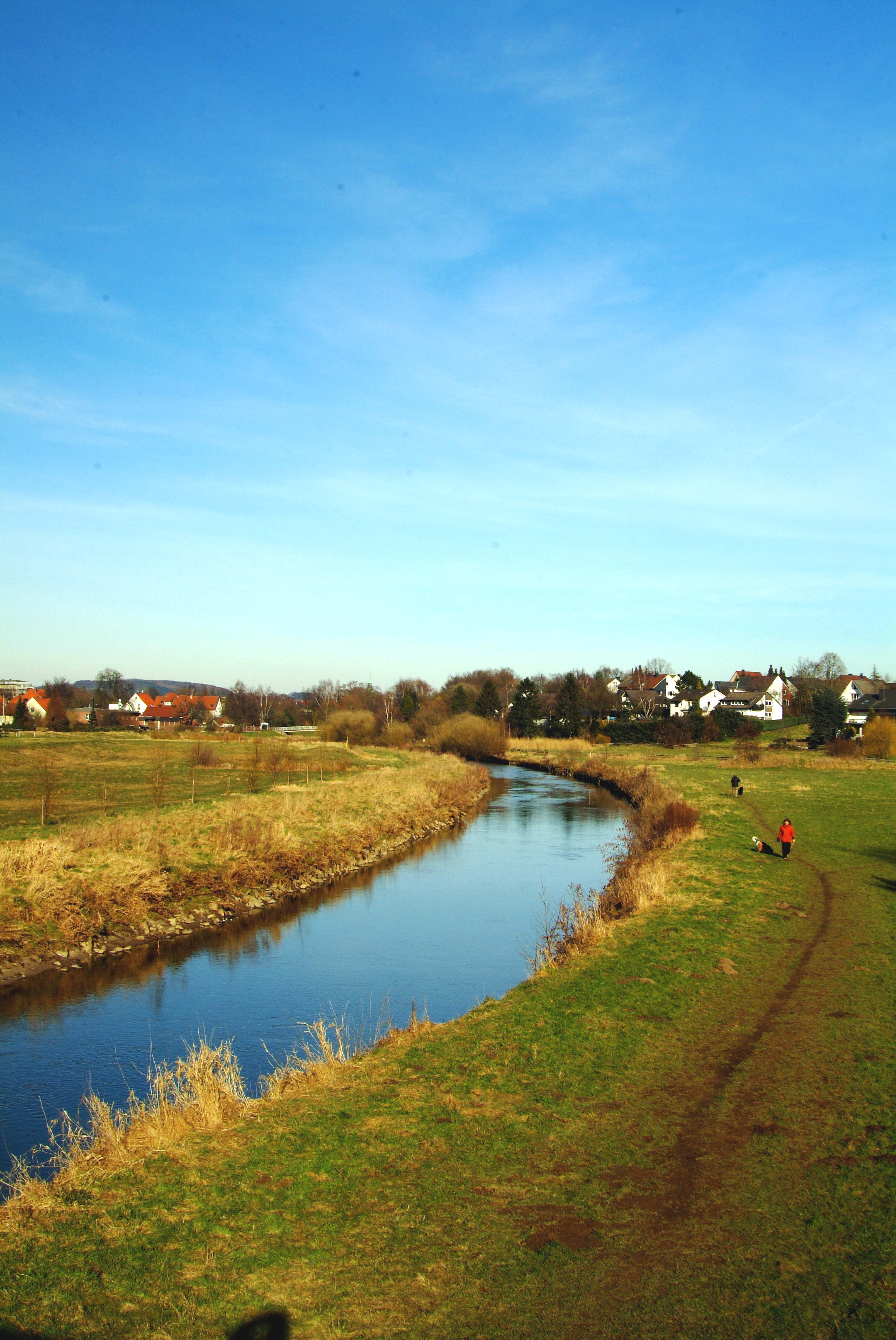 The river Aa near Bielefelder Straße in the town of Herford, District of Herford, North Rhine-Westphalia, Germany.